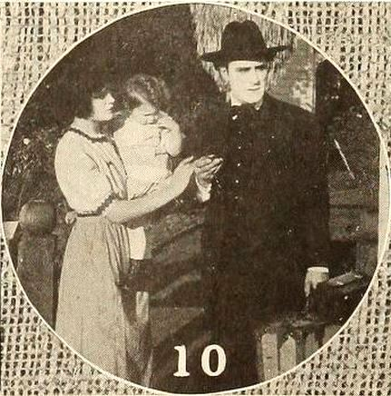 Still from the American film In the Sunlight (1915) with Vivian Rich, an unidentified child, and Harry von Meter, on page 7 of the March 20, 1915 Reel Life magazine. The magazine on this page numbered stills from several films. This still shows the family leaving the village at the end of the film.